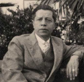 Frank Dufina circa 1930s in Florida